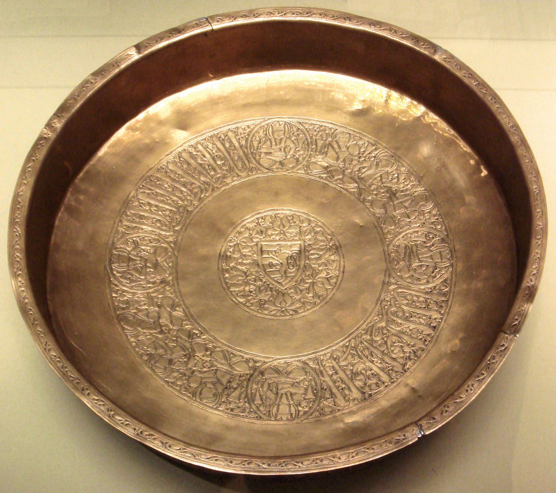 Plate with the coat of arms of the House of Lusignan-Cyprus. Copper alloy inlaid with silver and organic matter, Syria or Egypt, 2nd or 3rd quarter of the 14th century.